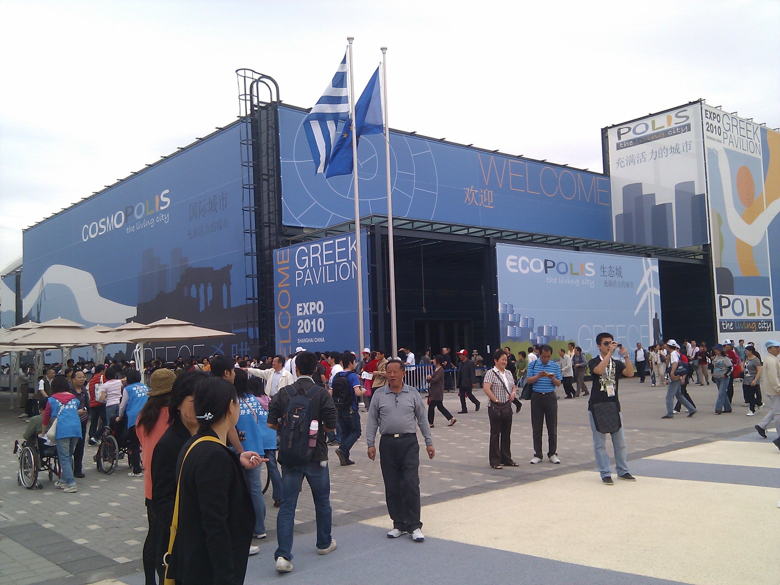 Greece Pavilion of Expo 2010